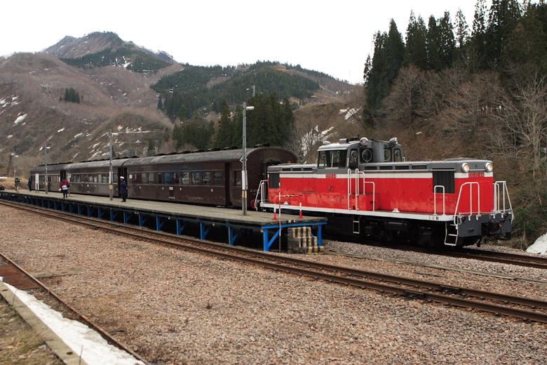 Class DD15 diesel locomotive DD15 44 on a special Uonuma service at Oshirakawa Station on the Tadami Line